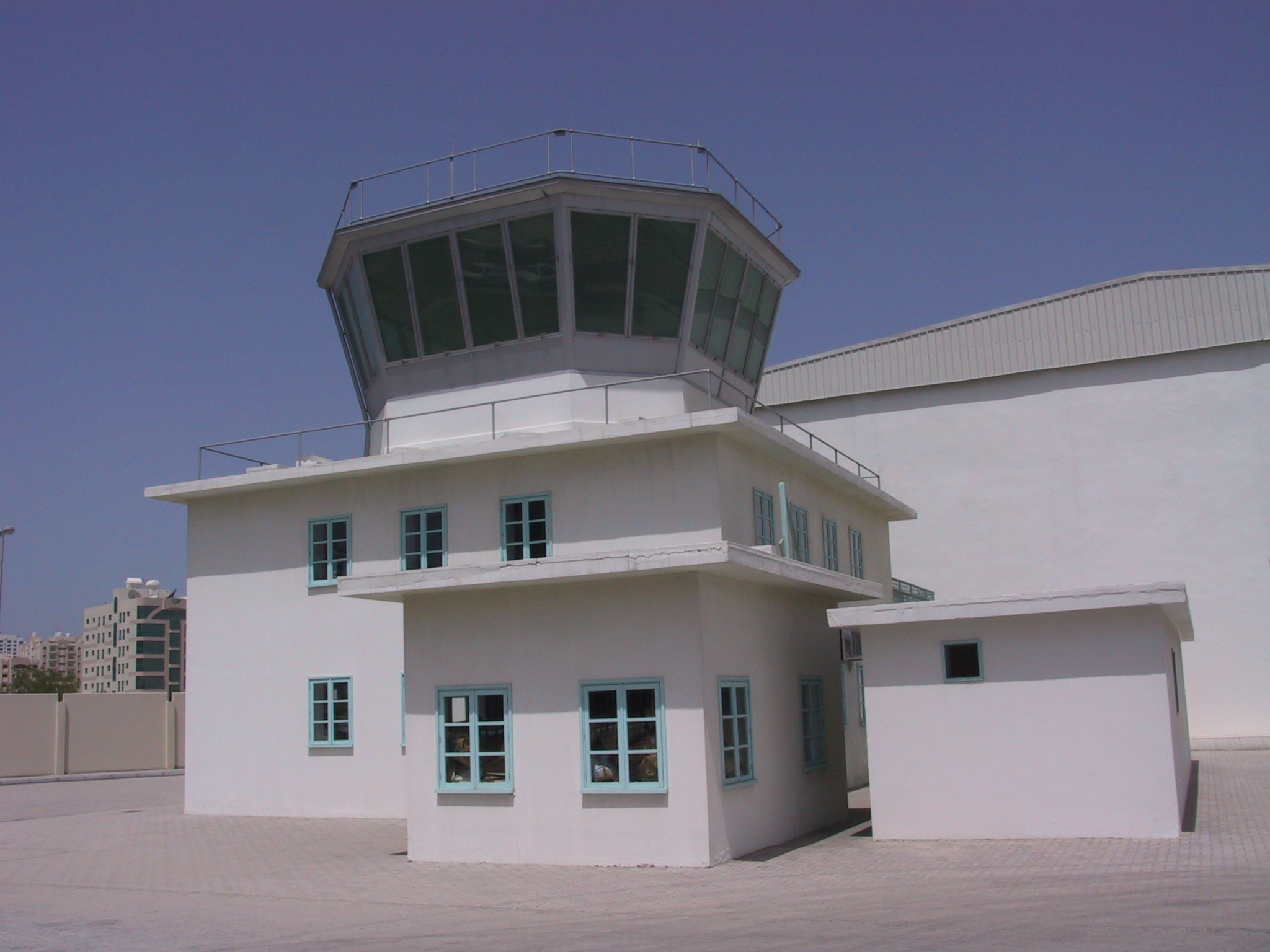 Conning Tower of Airfield at Al Mahatta Fort, Sharjah, United Arab Emirates